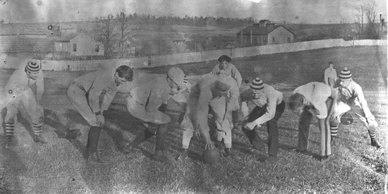 V.A.M.C. Football Team, 1893, coached by Prof. E.A. Smyth, Jr. (Virginia Tech was known as "Virginia Agricultural and Mechanical College" at the time.)